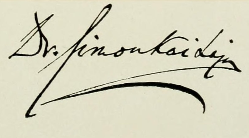 Autograph of Dr. Lájos SIMONKAI (born Ludwig Philipp SIMKOVICS, 1851-1910), hungarian botanist